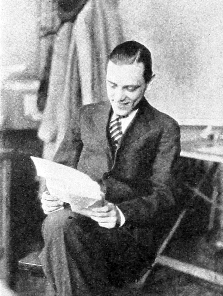 Photo of organist Con Maffie in 1931.